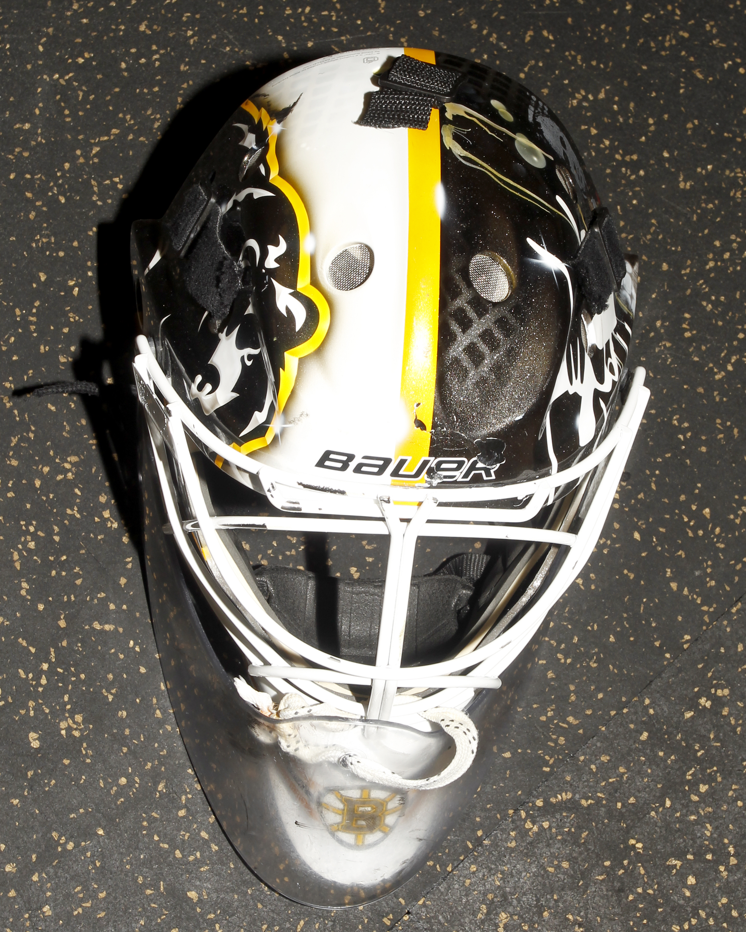 Alan Sullivan - Photographer American Hockey League (AHL). 2013 All-Star Skills Competition. Taken on January 27, 2013.